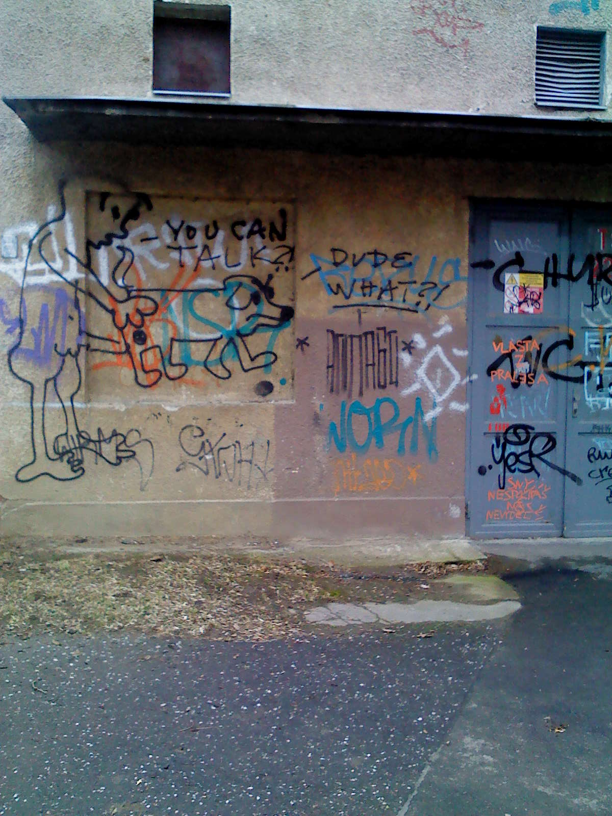 Spray drawing of zoophil, Horská Street, Prague, Czech Republic.